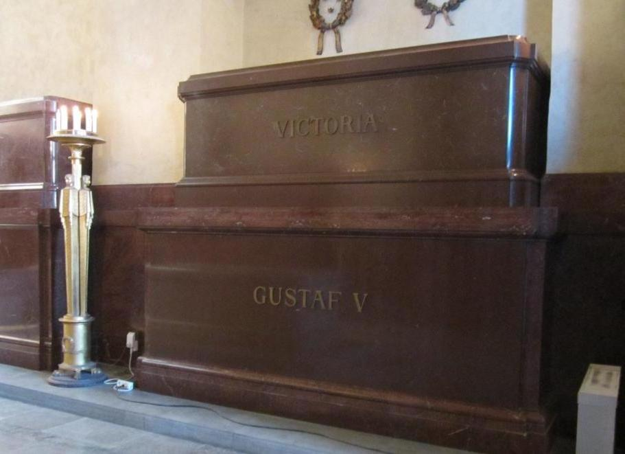 Graves of King Gustaf V and Queen Viktoria (above) of Sweden stacked from the ground floor of the Bernadottean Chapel at Riddarholm ChurchPlace: Stockholm, Sweden